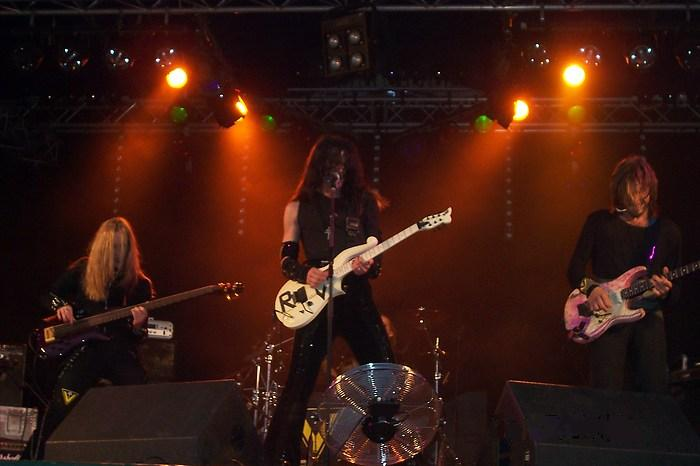 Dutch heavy rock act Valentine during a concert in Harlingen, the Netherlands in 2008. From left to right: Liselotte "Lilo" Hegt (bass), Robby Valentine (lead vocals, guitars, keyboards), Cyril Whistler (guitar, backing vocals).